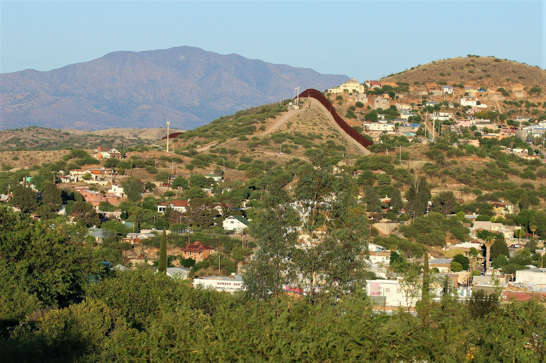 View of Nogales, Arizona/Sonora — from Arizona. The fence dividing Arizona and Mexico is visible in center of photo.